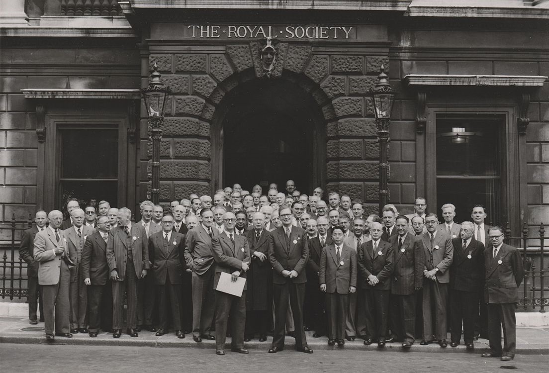 Physicists in front of the building of The Royal Society, 1952 at London.